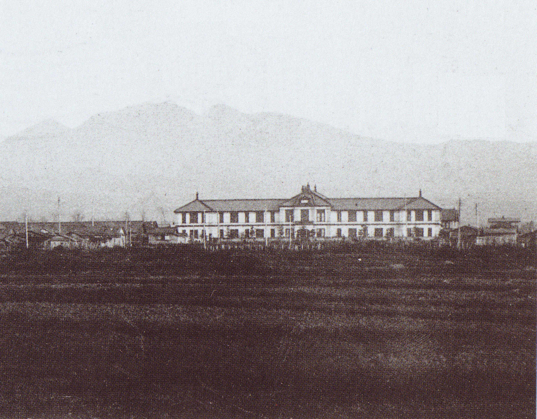 Aomori-Ken Shihan Gakko in Aomori, Aomori pref., Japan.